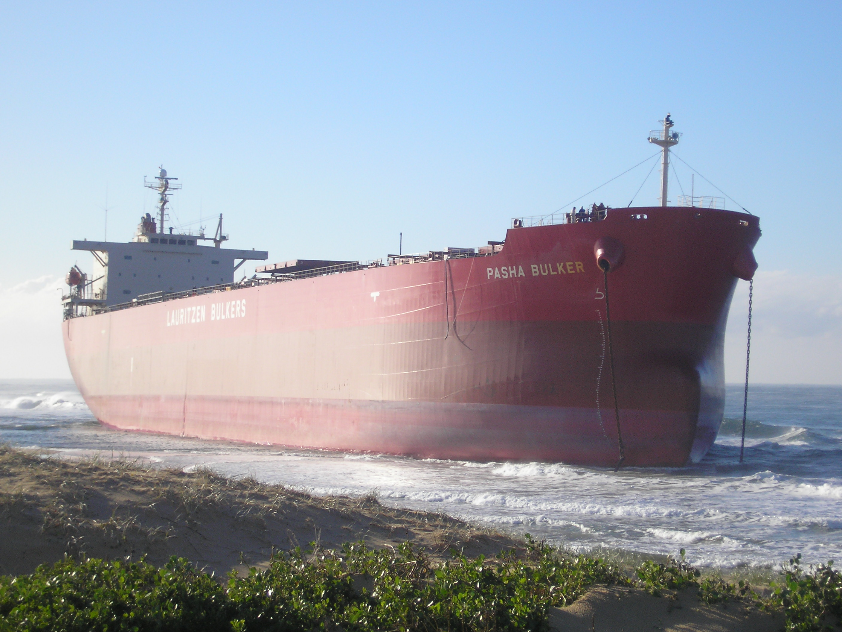 The Pasha Bulker, a ship that ran aground in Newcastle, NSW, Australia in 2007